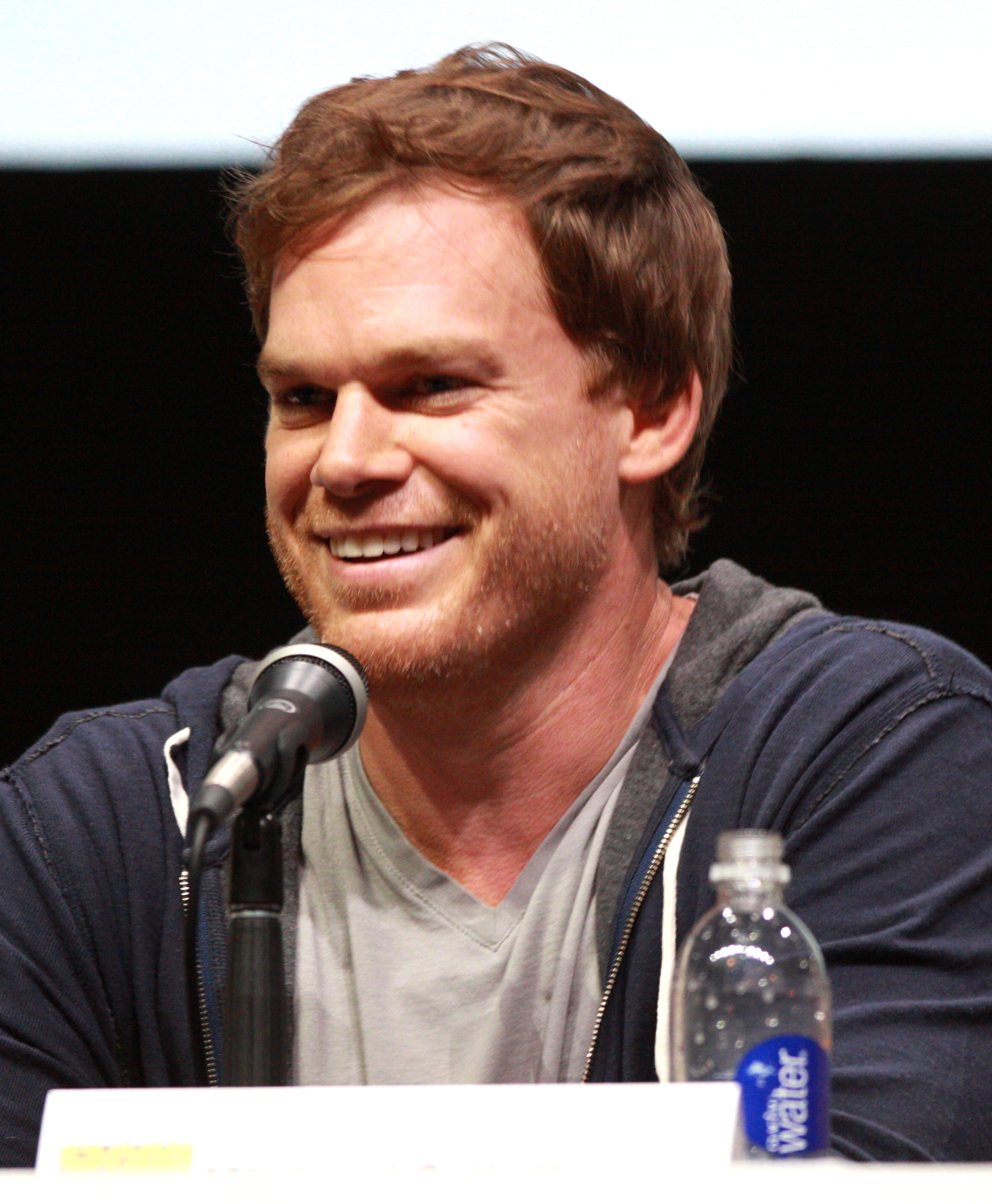 Michael C. Hall at the 2013 San Diego Comic Con International in San Diego, California.